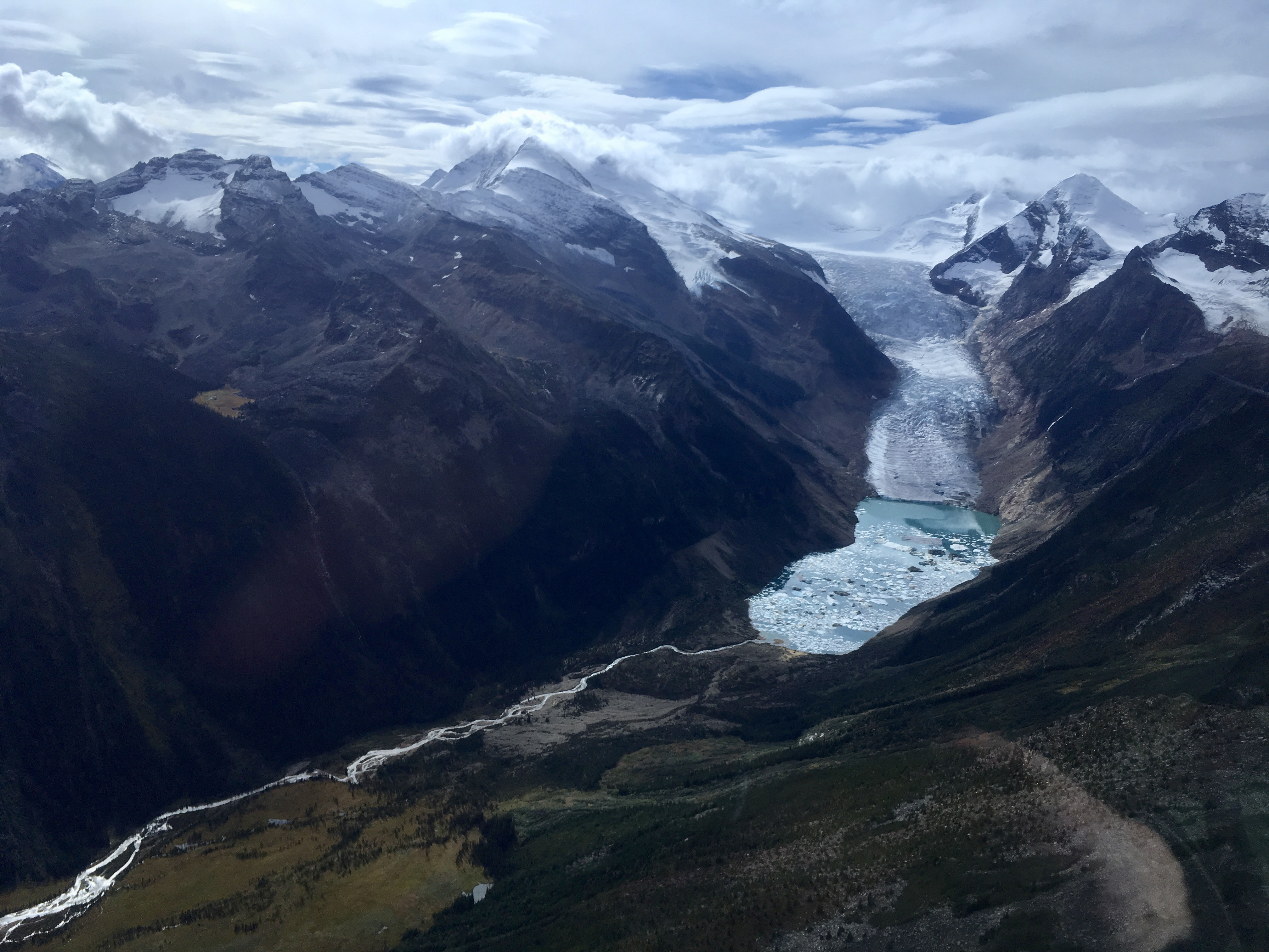 Kiwa Glacier and Kiwa Lake, source of Kiwa creek. near Valemount, BC